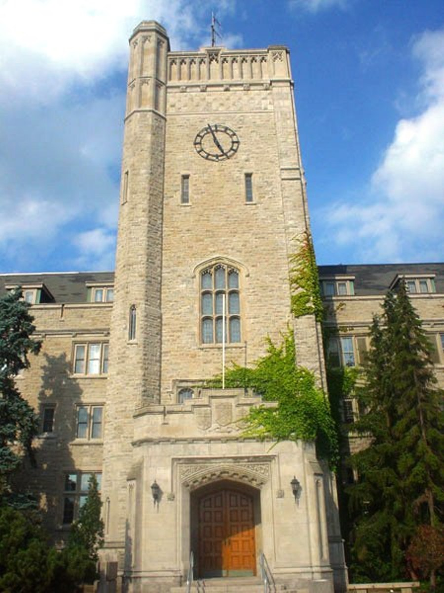 Johnston Hall at University of Guelph Campus Author: User:Palthrow, who relinquishes all rights to this photo